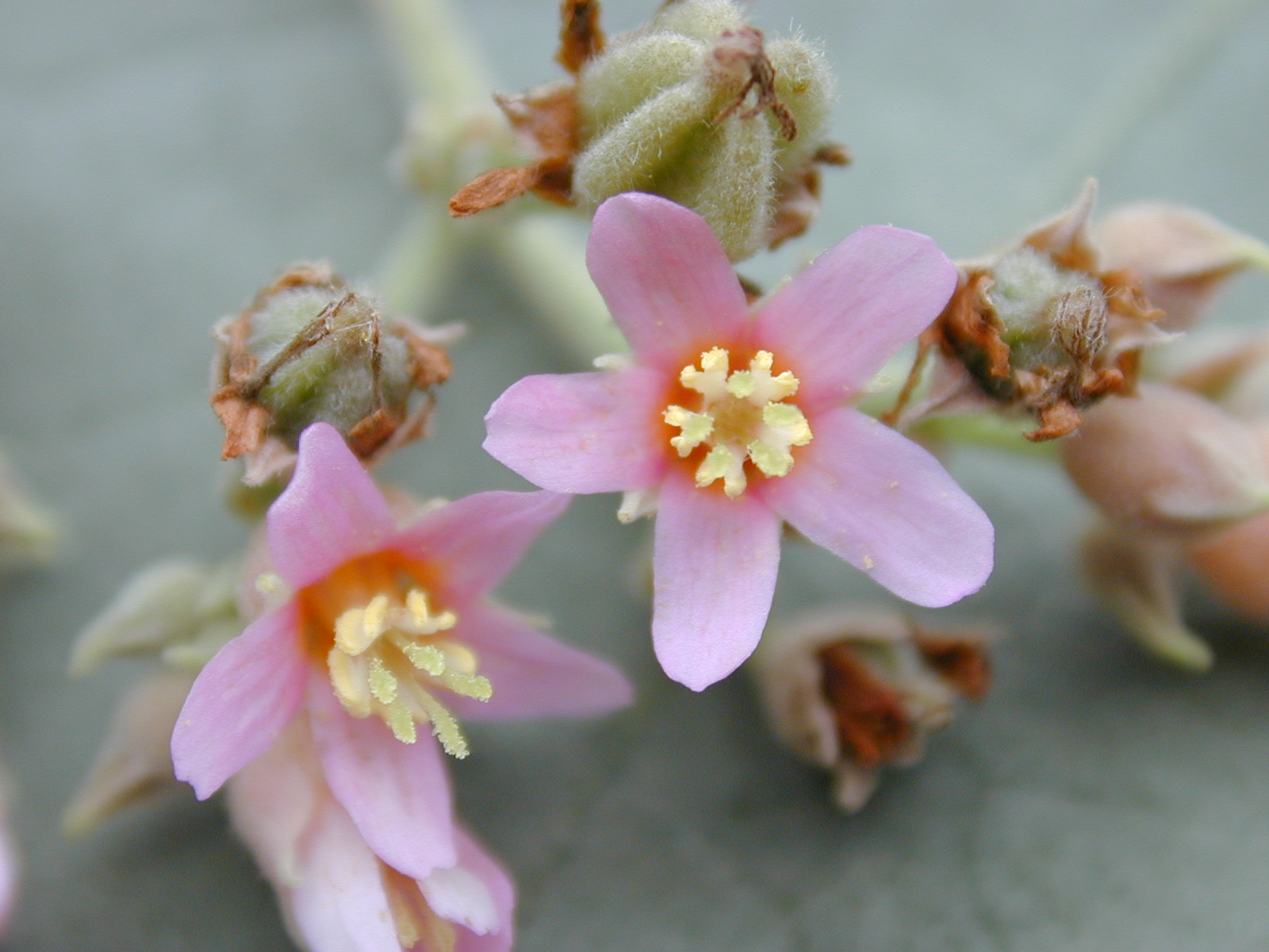 Melochia umbellata (flowers and fruits). Location: Hawaii, Keaukaha